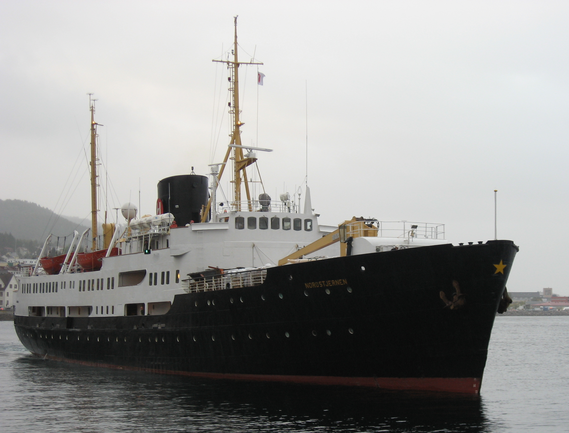 Coastal express ship (Hurtigruten) MS Nordstjernen leaves Molde